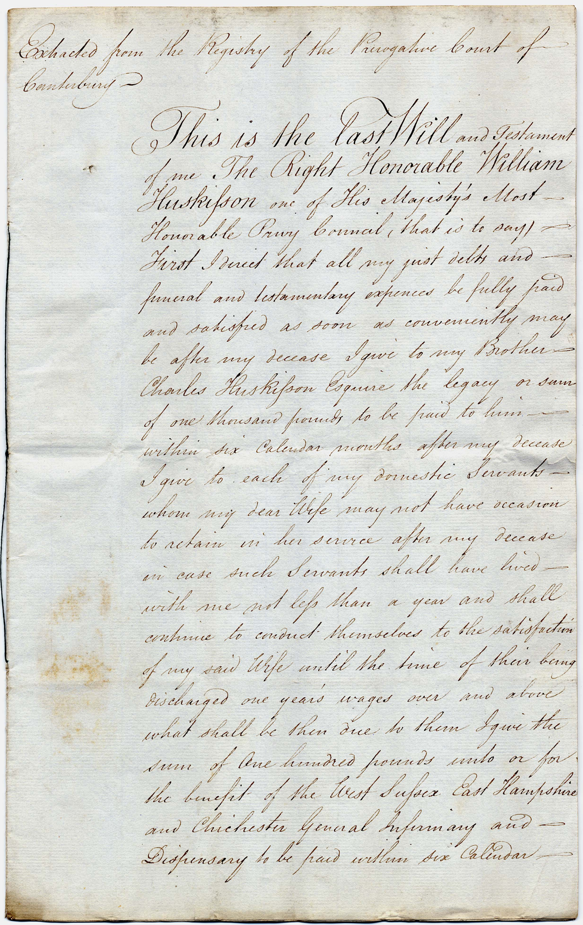 The Will of William Huskisson from Lancashire Archives. Huskisson was a prominent politician in the late 18th & early 19th century and Member of Parliament for Liverpool. He was killed at the opening of the Liverpool and Manchester Railway 15 Sept 1830 when he was struck by Stephenson's Rocket. Huskisson was one of the first, and first widely reported, casualties of the Steam Age.